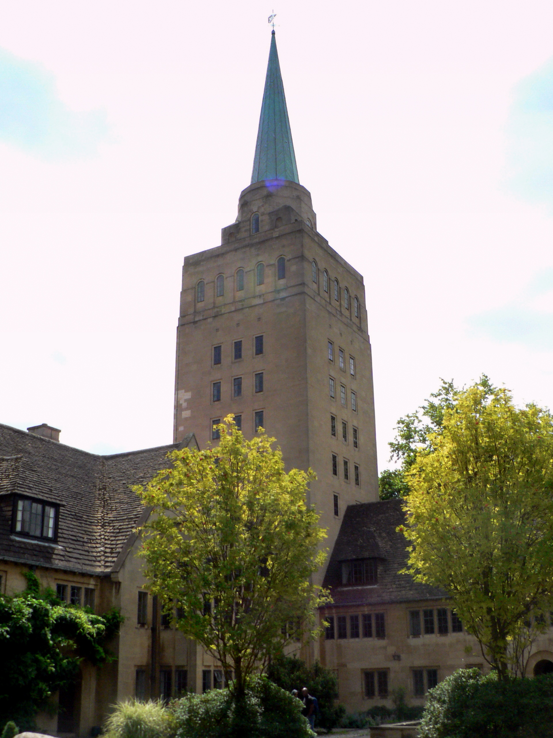 The tower at Nuffield College, Oxford